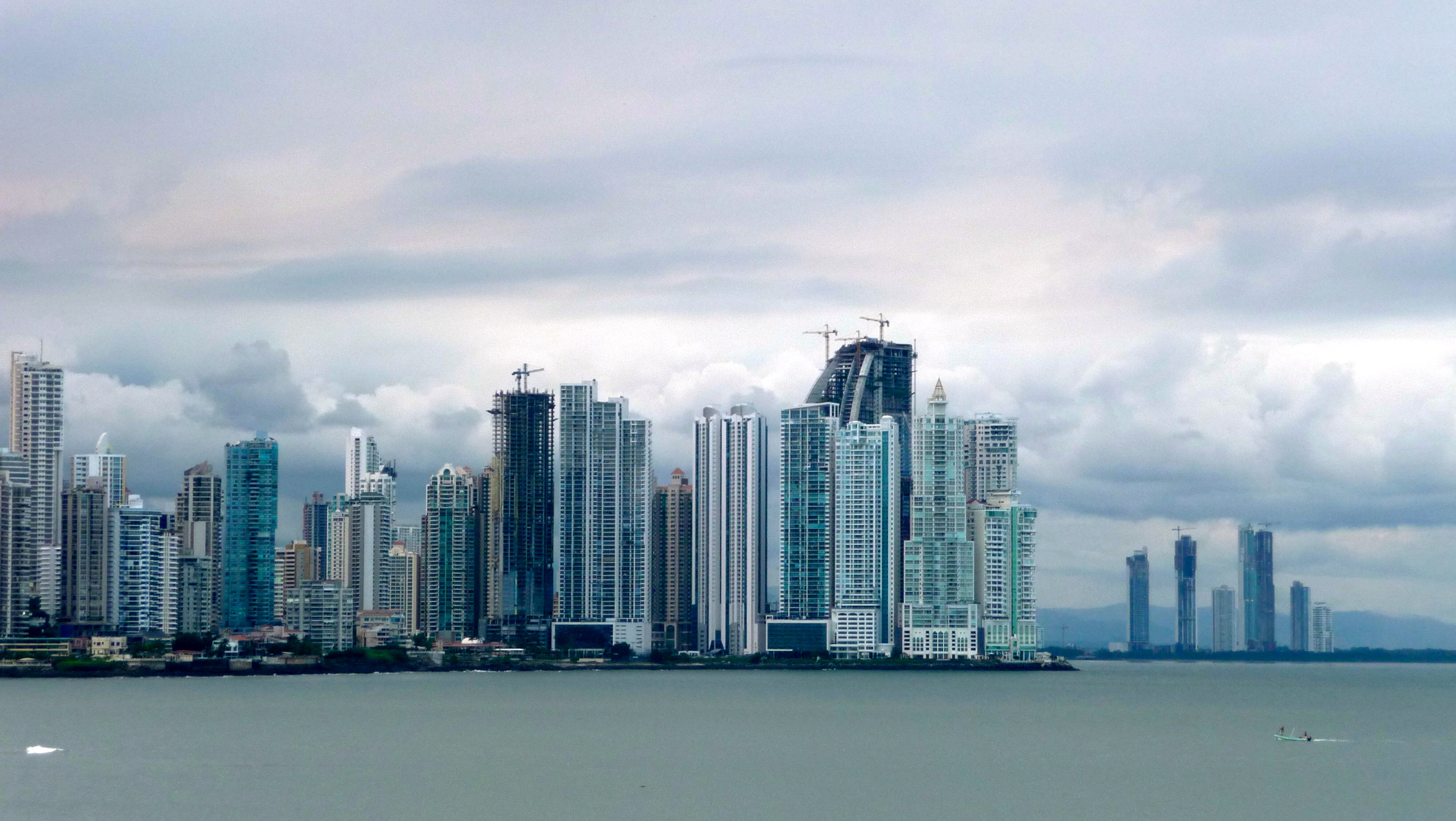 Skyline of Panama City, near Cinta Costera. photo taken in Casco Viejo.